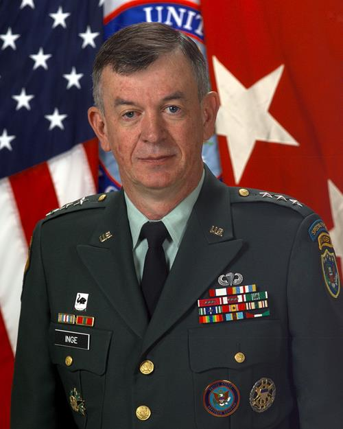 LTG Joseph Inge from [1]